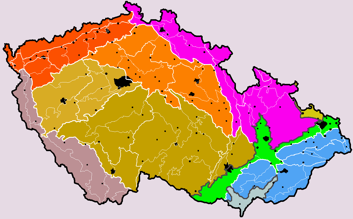 Map of geomorphological division of the Czech Republic with coloured geomorphological subprovinces (second-level divisions of the country).